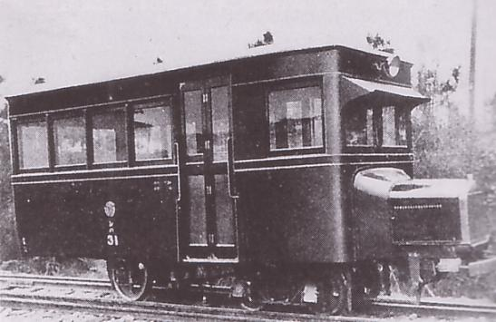 "Shiha 31" used in Mie Railway（三重鉄道）, 762 mm gauge.